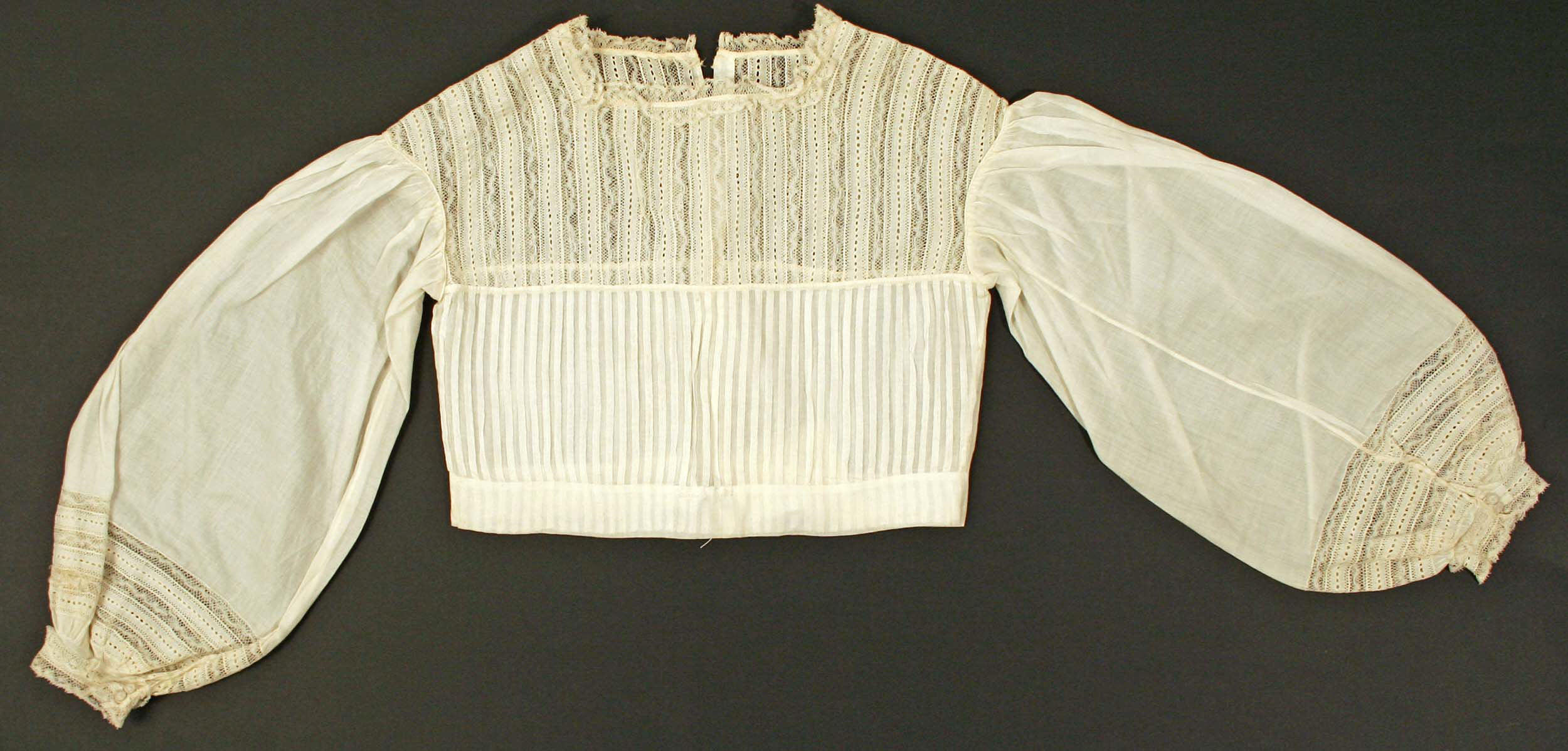 American; Chemisette